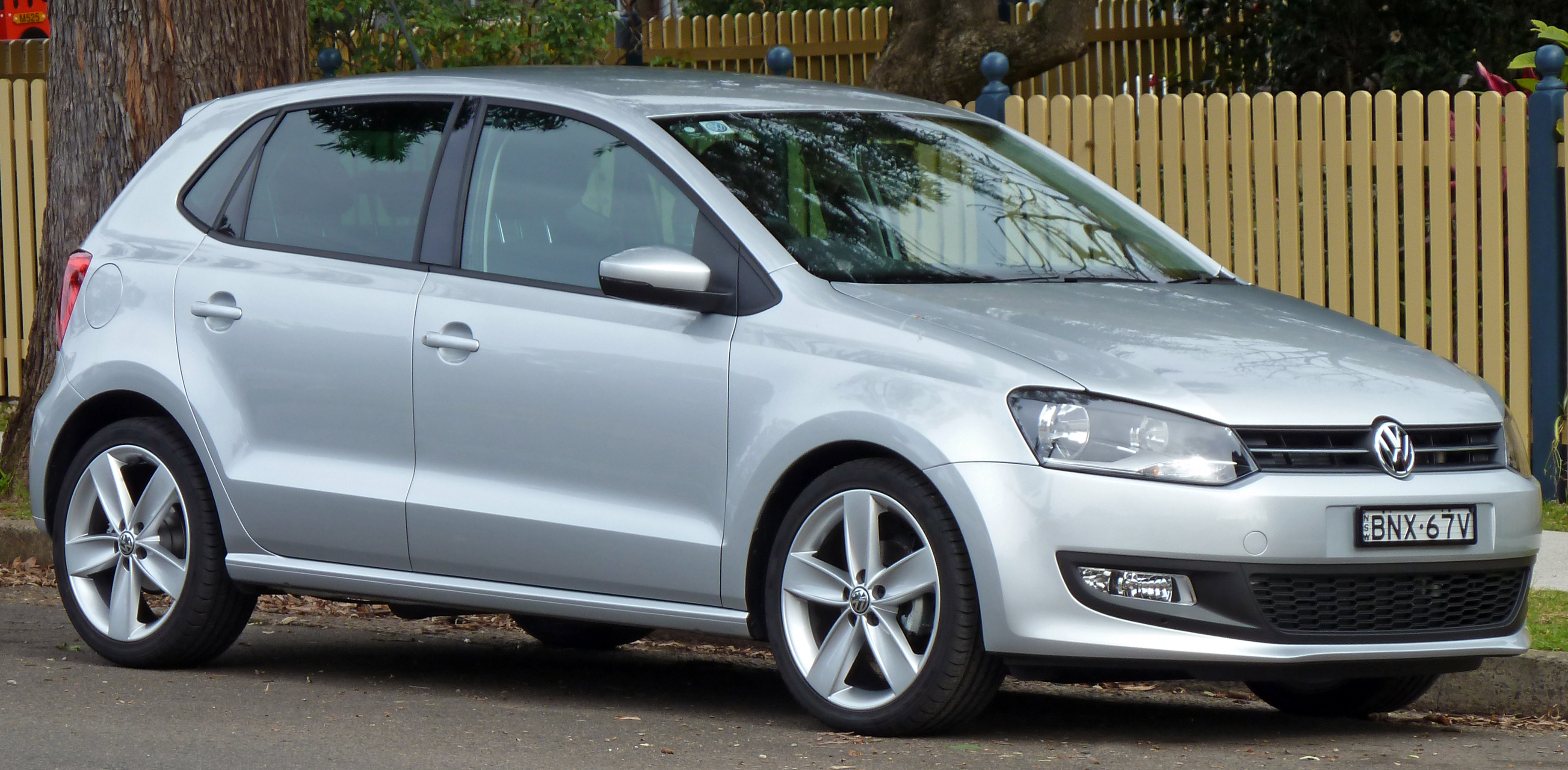 2010 Volkswagen Polo (6R) 77TSI Comfortline 5-door hatchback. Photographed in Woolooware, New South Wales, Australia.